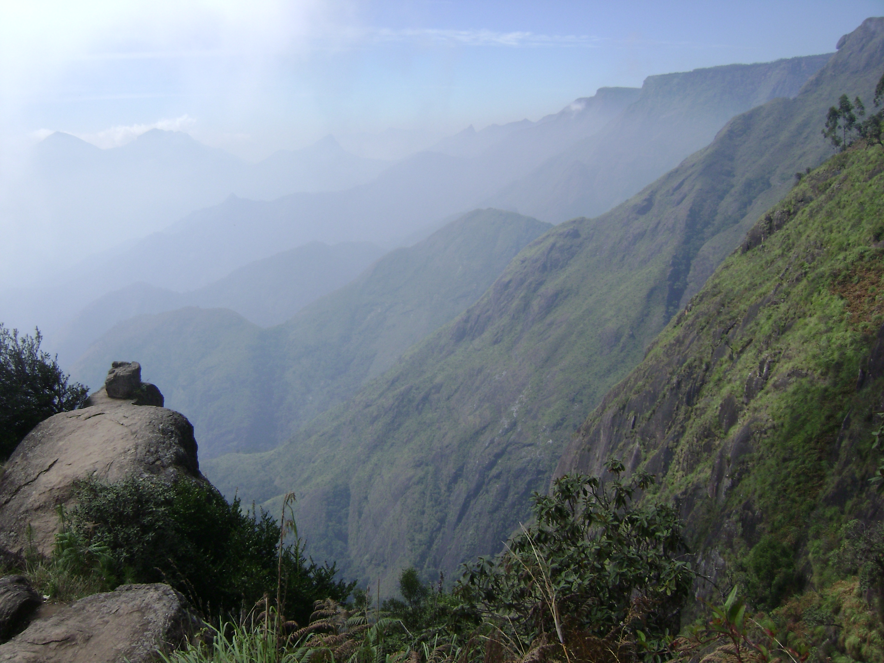 Palani Hills proposed Wildlife Sanctuary and National Park looking south